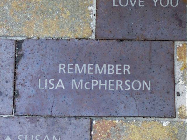 Original commemorative brick, memorial of Lisa McPherson, as described in St. Petersburg Times